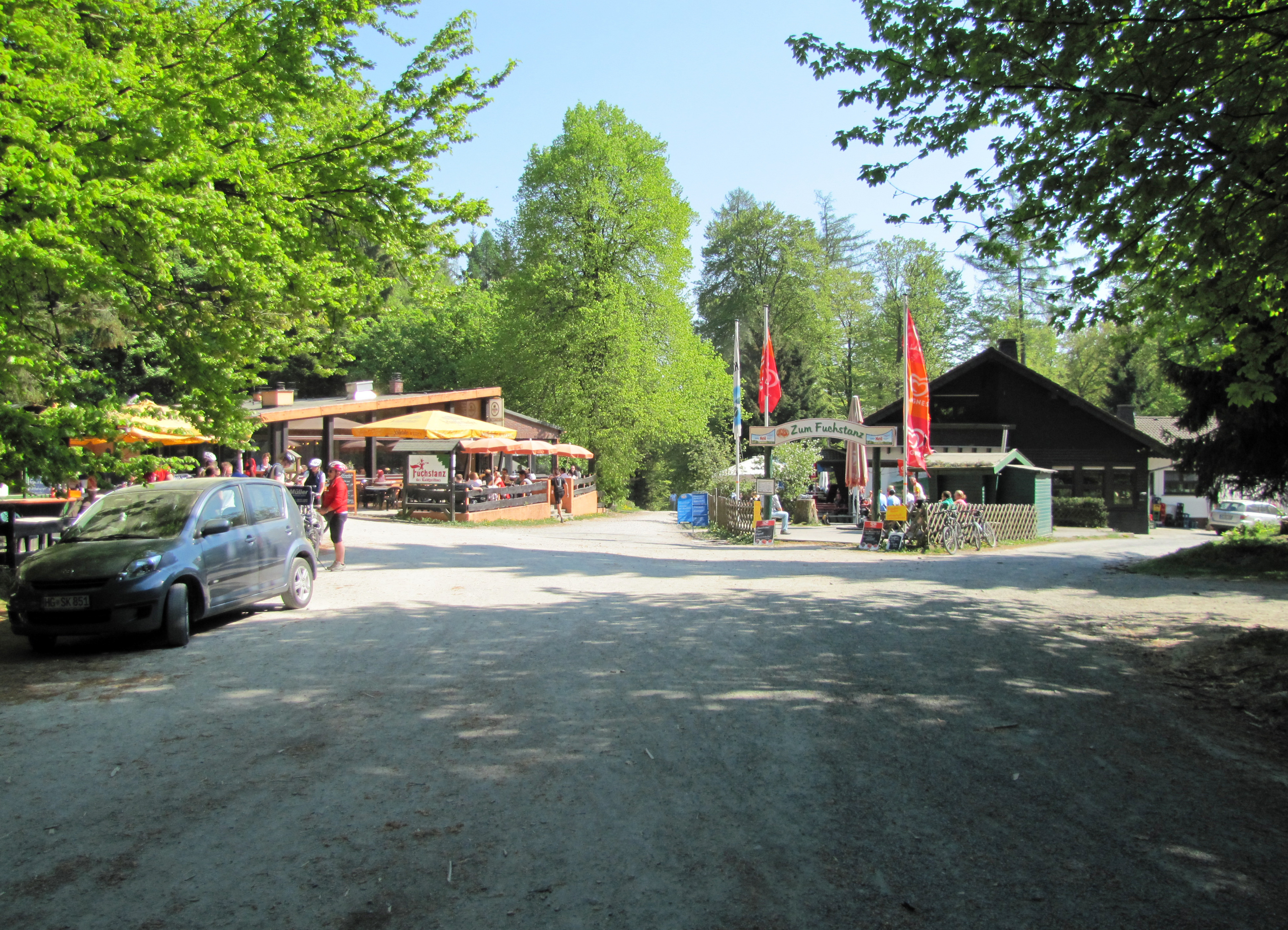 The mountain pass "Fuchstanz", at Taunus 2011, Hesse, Germany.